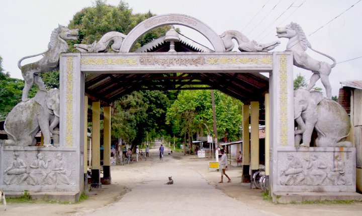 Garmur Satra, Majuli